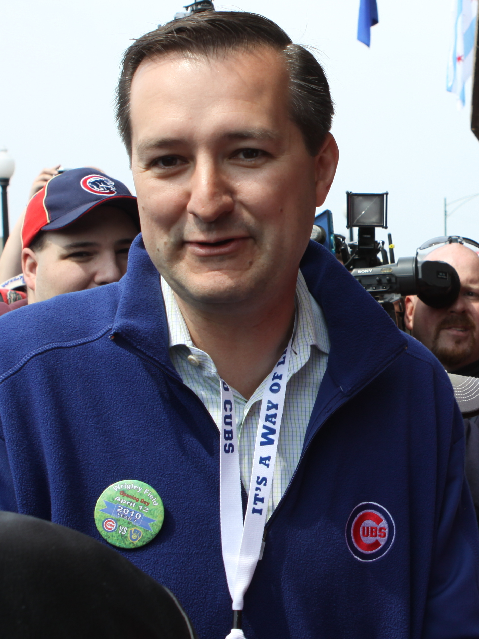 Tom Ricketts arrives at Wrigley Field for his first Opening Day as Cubs owner. I had a scheduled vacation day today - but the COVID-19 quarantine means I will not be at Wrigley Field for Opening Day. Instead I'm posting images from Opening Day ten years ago.